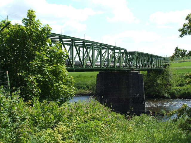 Footbridge over the River Clyde. When this photo was taken, the near end of the bridge was partially blocked off with barbed wire. The photograph was taken from the section of footpath shown in 1657784.